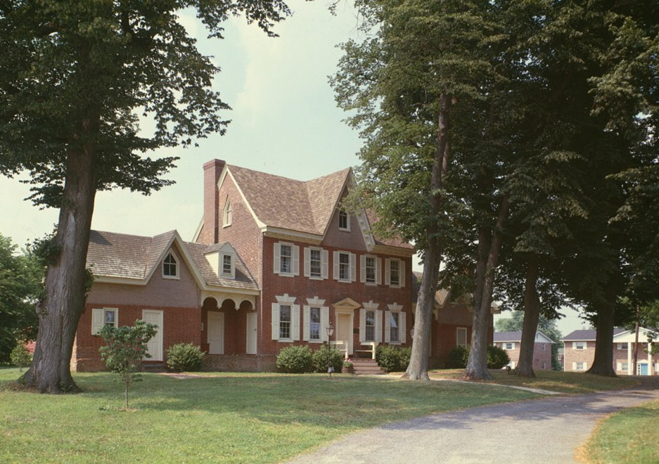 Parson Thorne Mansion, 501 Northwest Front Street, Milford (Kent County, Delaware) cropped This file comes from the Historic American Buildings Survey (HABS), Historic American Engineering Record (HAER) or Historic American Landscapes Survey (HALS). These are programs of the National Park Service established for the purpose of documenting historic places. Records consist of measured drawings, archival photographs, and written reports. When reusing please credit: Library of Congress, Prints & Photographs Division, de-197-19 This tag does not indicate the copyright status of the attached work. A normal copyright tag is still required. See Commons:Licensing. This work is in the public domain in the United States because it is a work prepared by an officer or employee of the United States Government as part of that person’s official duties under the terms of Title 17, Chapter 1, Section 105 of the US Code. Note: This only applies to original works of the Federal Government and not to the work of any individual U.S. state, territory, commonwealth, county, municipality, or any other subdivision. This template also does not apply to postage stamp designs published by the United States Postal Service since 1978. (See § 313.6(C)(1) of Compendium of U.S. Copyright Office Practices). It also does not apply to certain US coins; see The US Mint Terms of Use. This file has been identified as being free of known restrictions under copyright law, including all related and neighboring rights. Object location38° 54′ 49″ N, 75° 26′ 07″ W